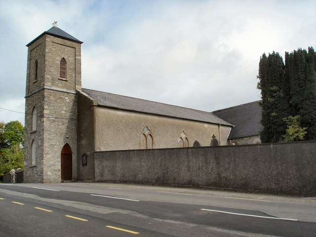 Church of Ireland Stranorlar Just off the main road (the N15) from Stranorlar to Castlefinn, the church faces to the east.